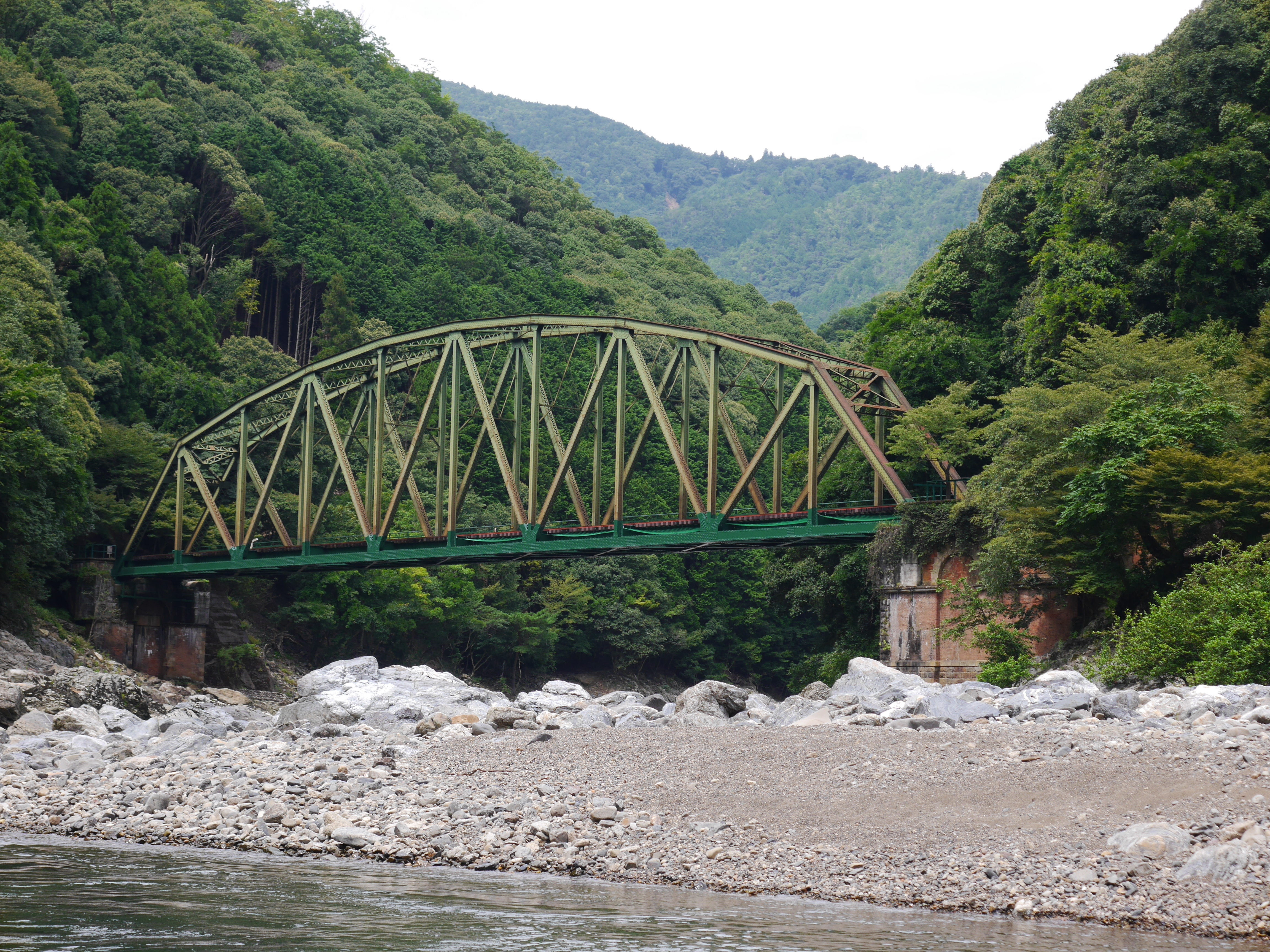 Sagano Scenic Railway Hozugawa bridge